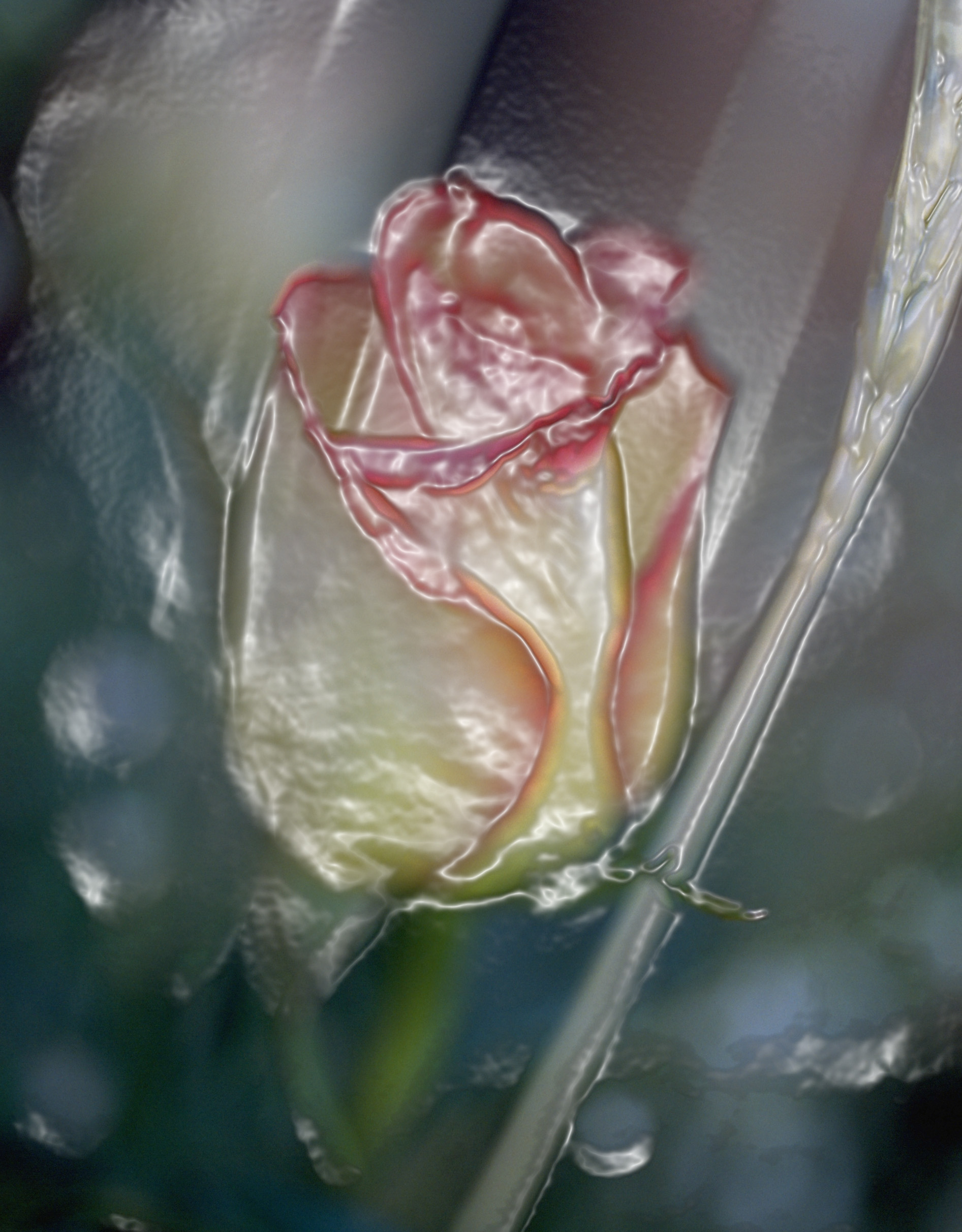 Transgenic Rose,BioArt project 2004. This peculiar portfolio derived from their author's certitude that there is a certain similarity between cloning and photography, both characterized by the intent to " reproduce the original as closely as possible and in as many copies as might be desired " Paola Sammartano, Zoom Magazine,139, november dicembre - 1995, Italy